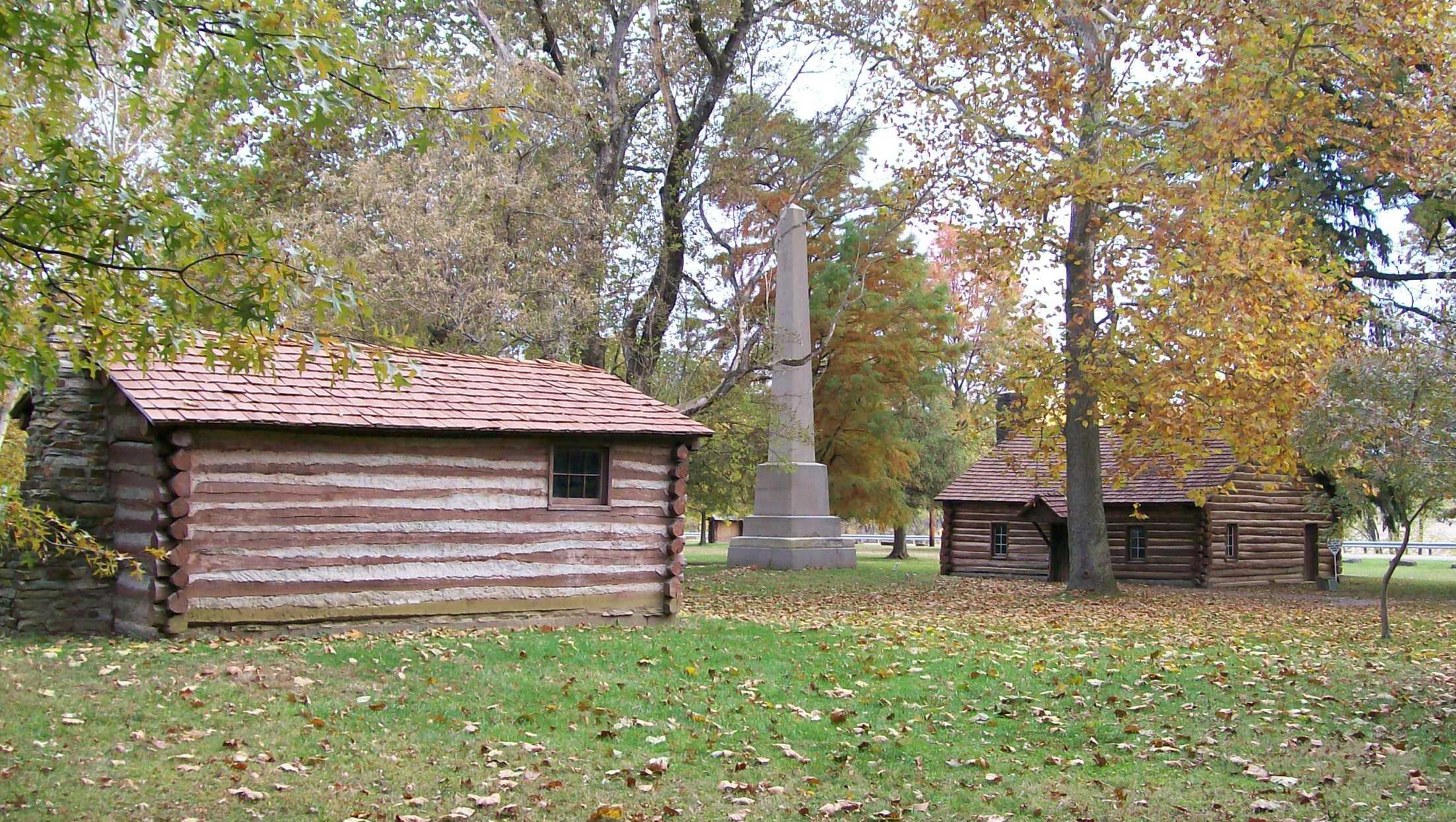 The Gnadenhutten Massacre Site in Gnadenhutten, Ohio.